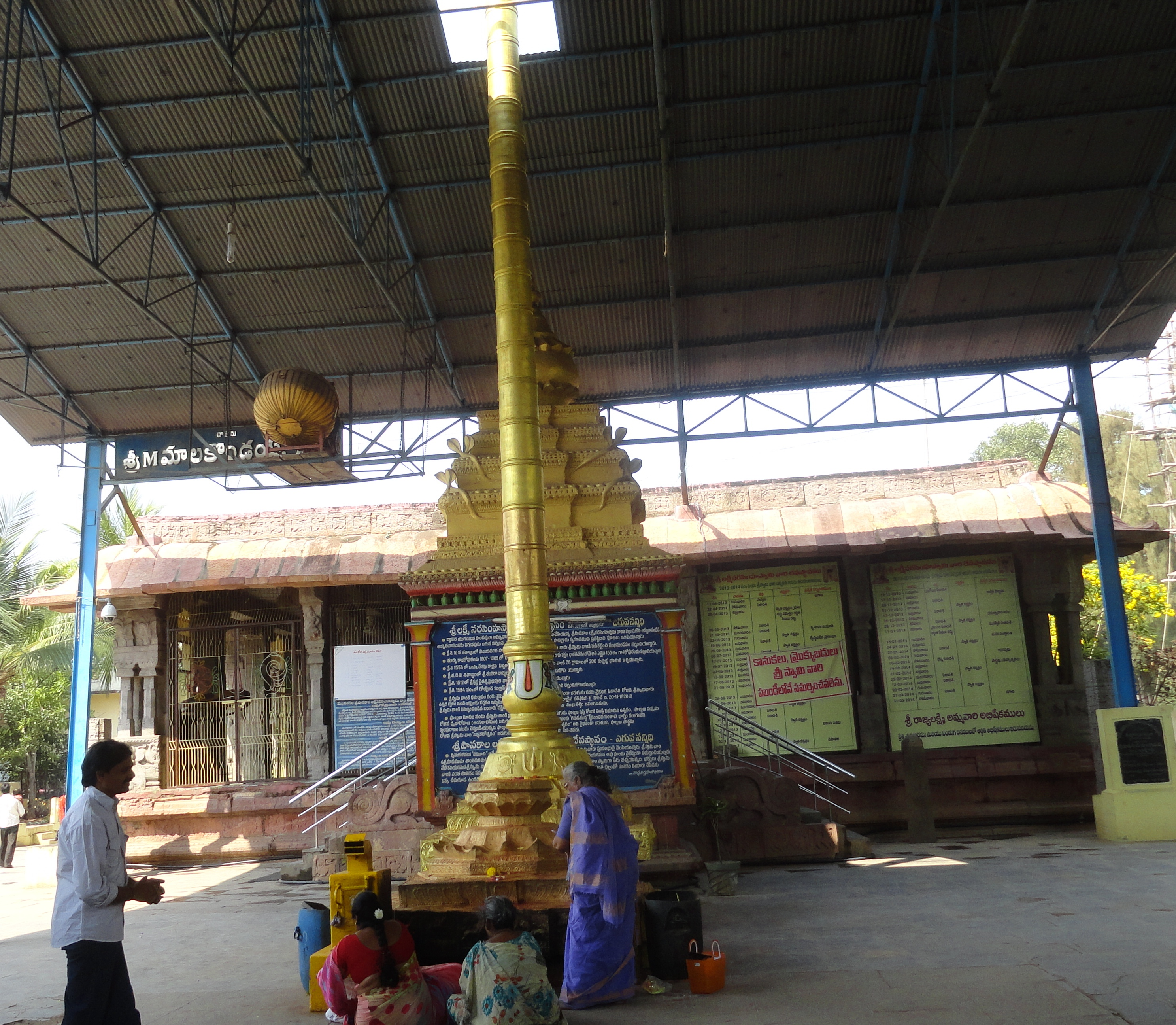 మంగళగిరి ఆలయంలో ద్వజ స్థంబం. మంగళగిరిలో తీసిన చిత్రము Dwaja sthaMbaM of Mangalagiri temple.